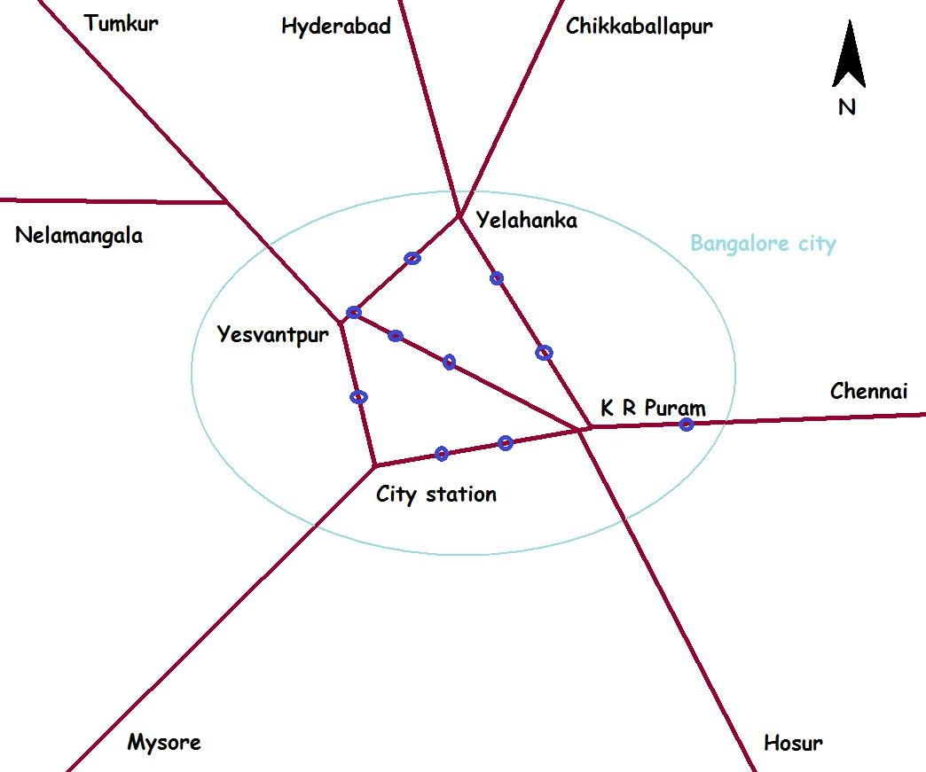 Bangalore railway lines schematic